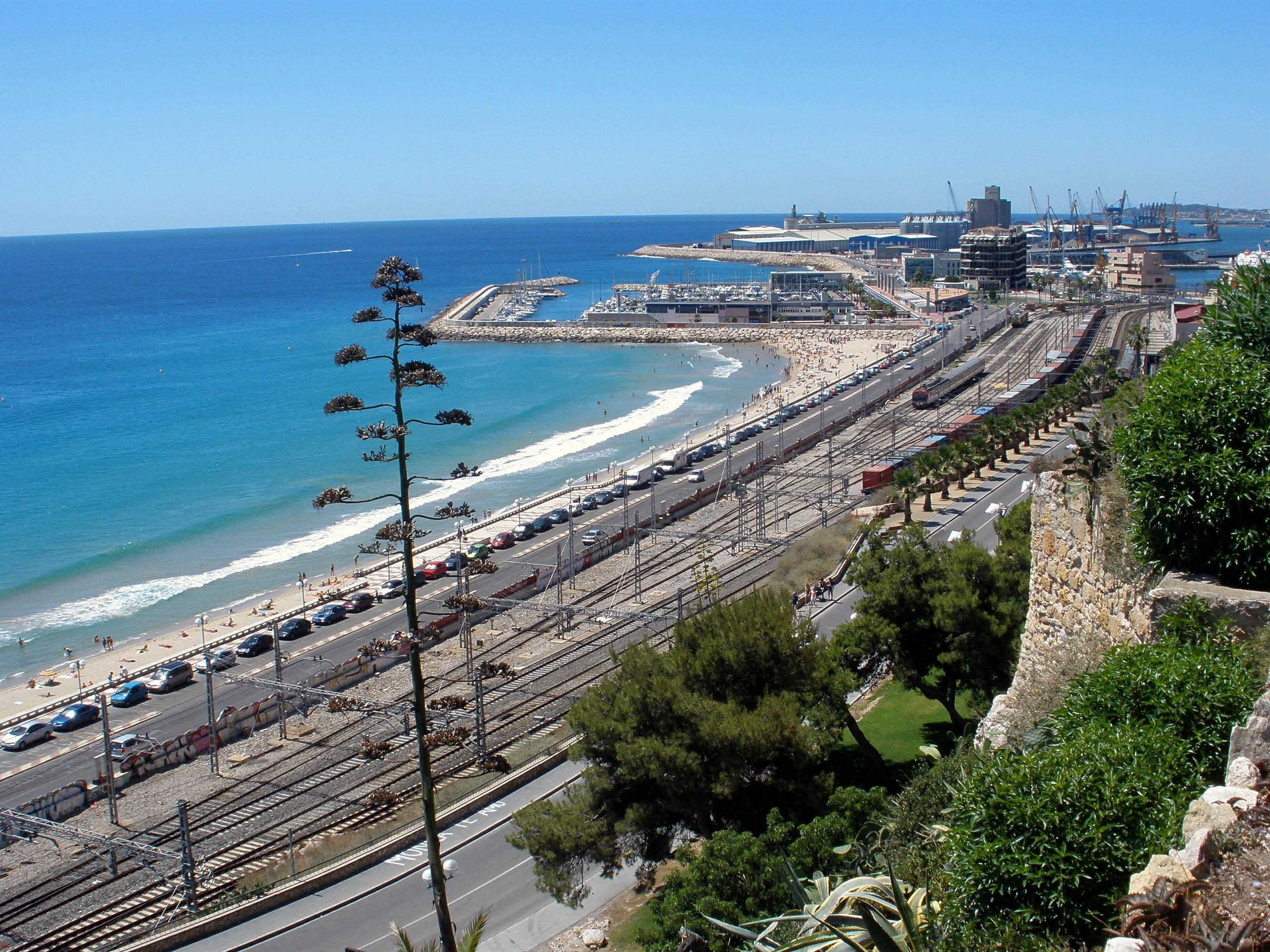 Panorámica de Tarragona desde el Balcón del Mediterráneo. Tarragona, Cataluña, España